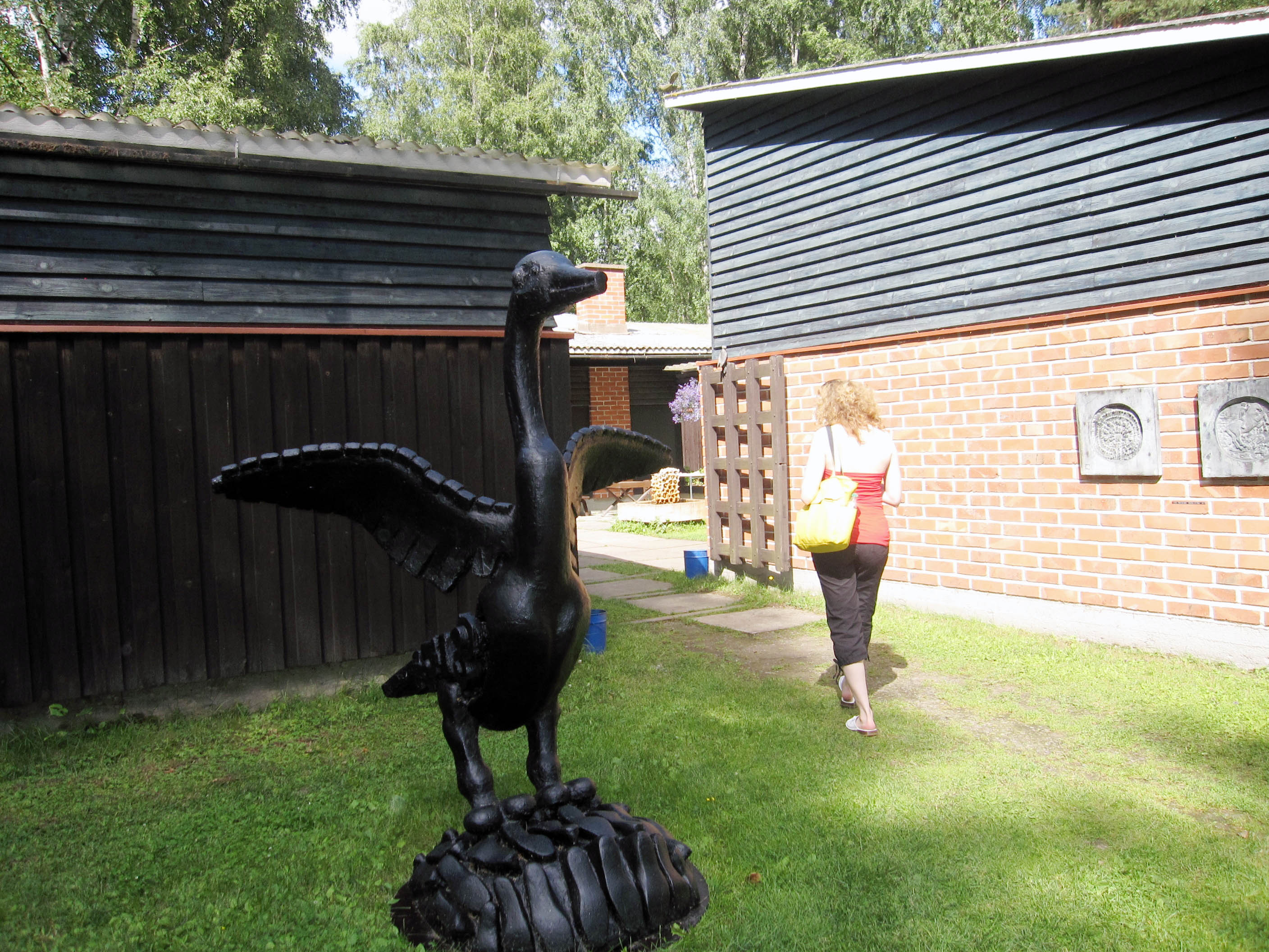 Purnu art exhibition in Orivesi Finland